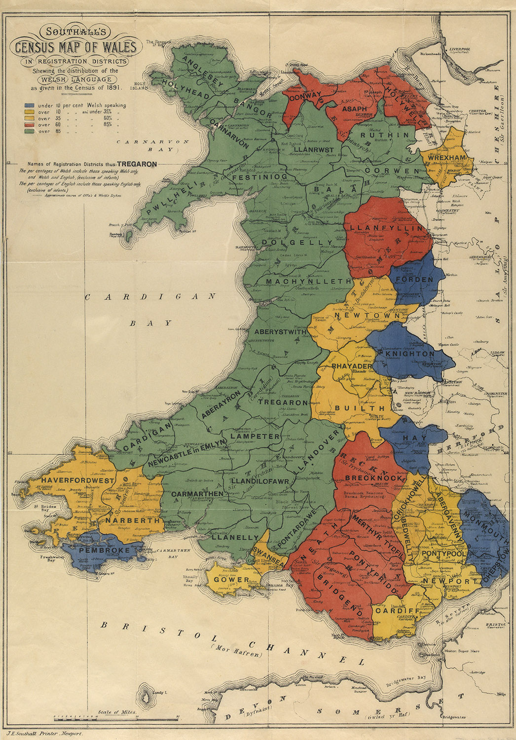 Map of Wales showing Welsh language distribution according to census districts in five categories (from under 10% to over 80%)